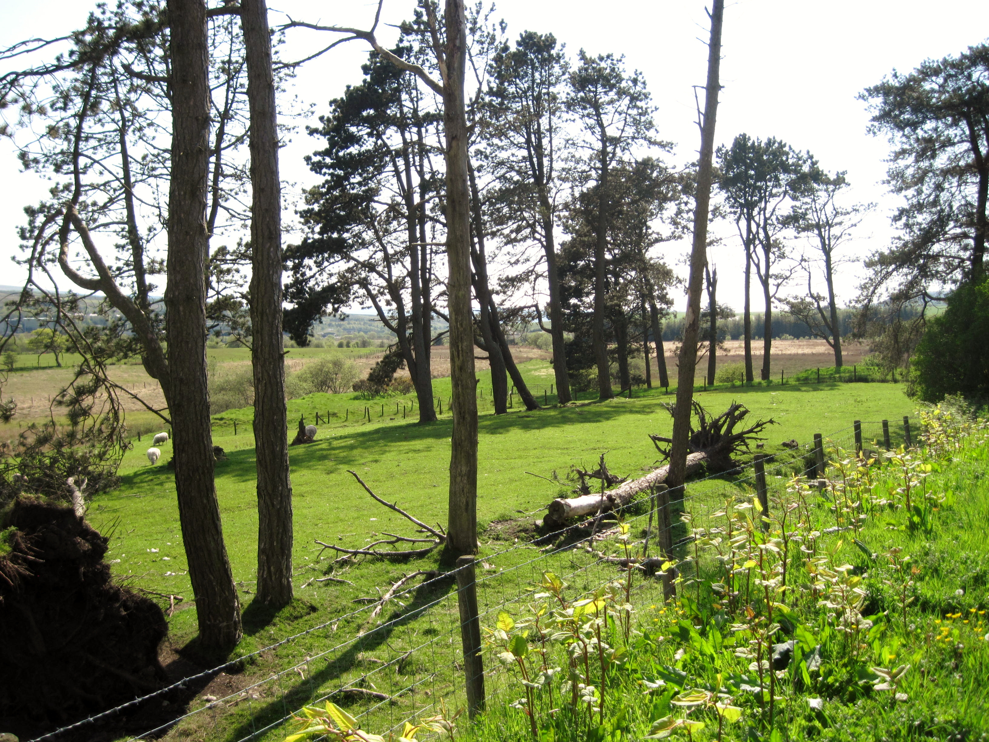 Site of the 'Junction Line' platforms looking west. The Neath line can just be discerned in the centre background